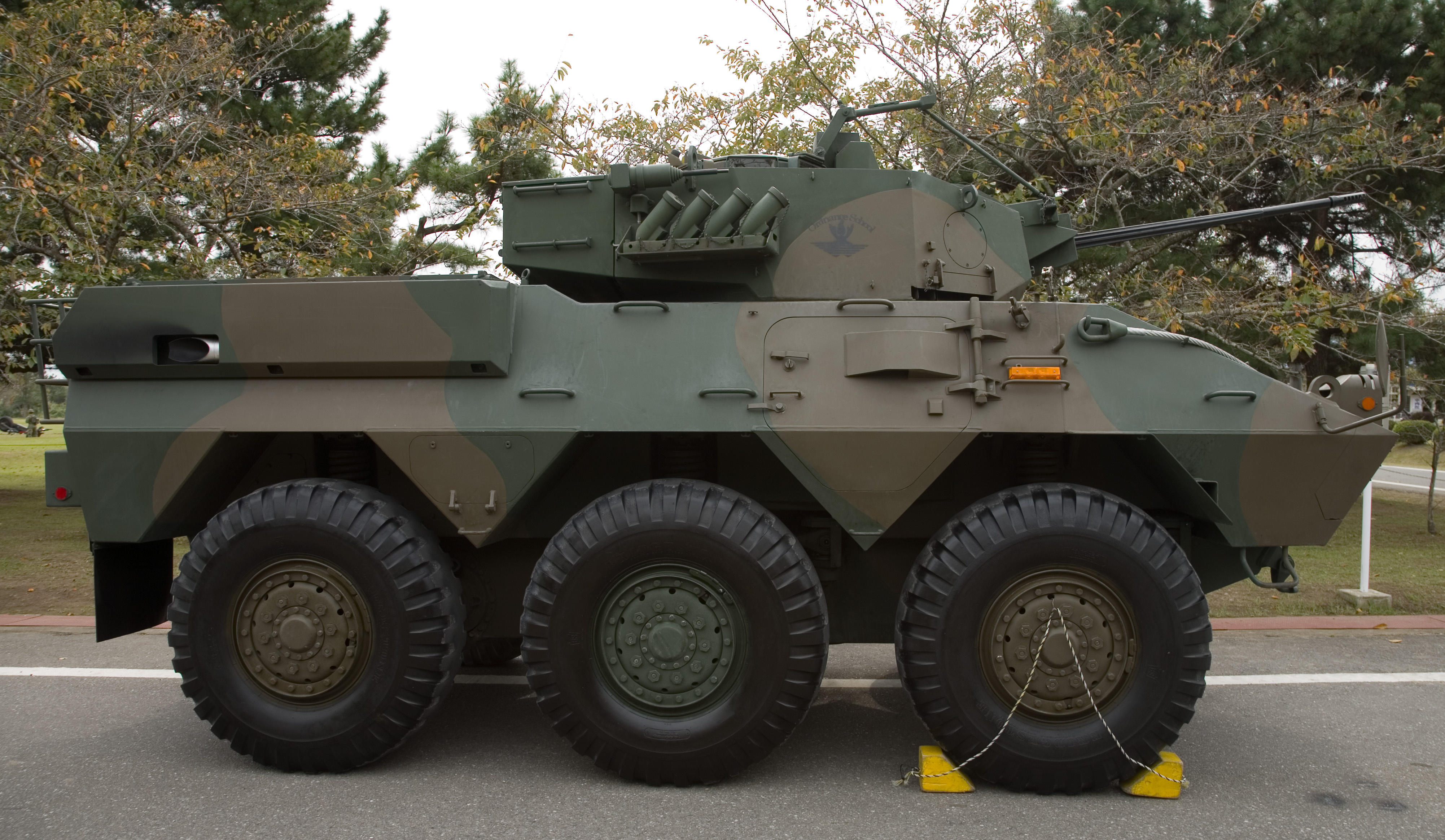 A Type 87 Scout/Recon. vehicle on display at the JGSDF Ordnance School in Tsuchiura, Kanto, Japan.